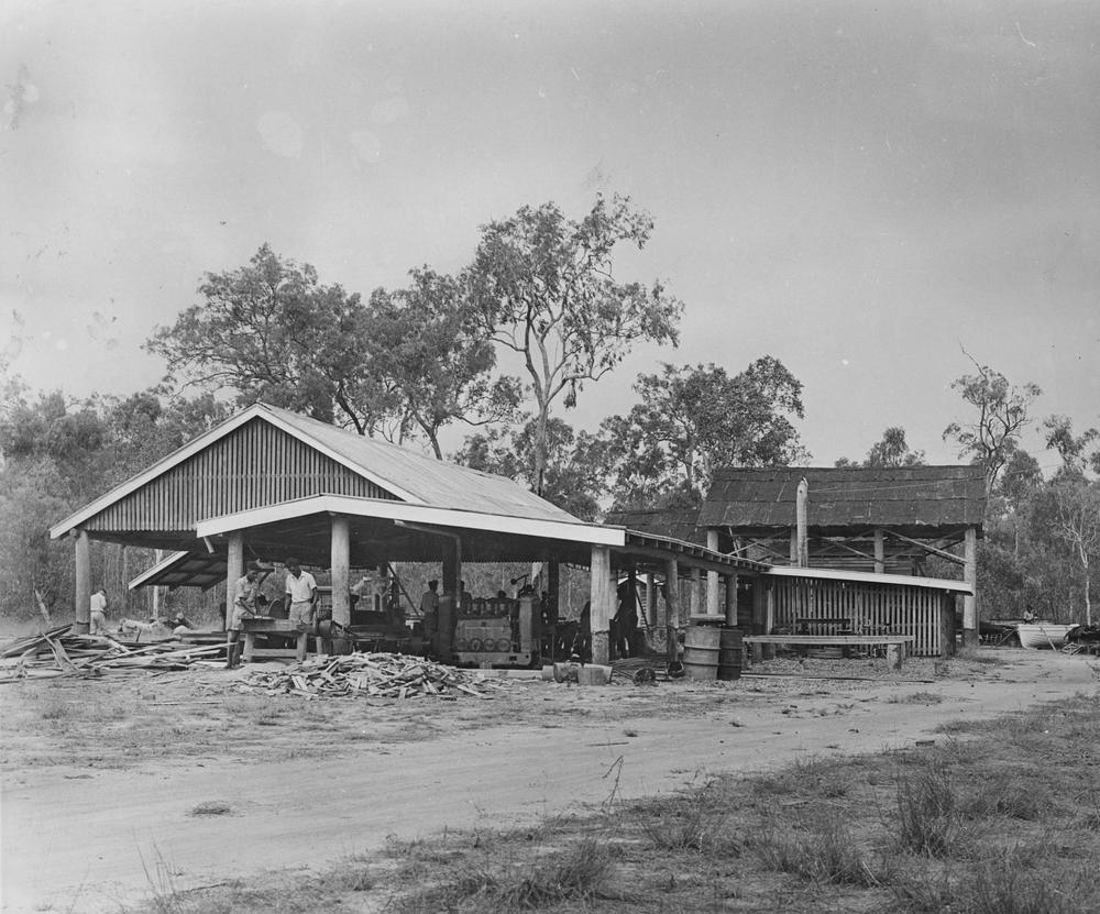 Aurukun sawmill, North Queensland, ca. 1950 Aurukun Timber Holdings is wholly owned by the WCCA Southern Sub-Regional Trust - effectively owned and controlled by the indigenous members of the Aurukun community, including the traditional owners of the land whose native title entitles them to fell the timber on the land. Sawmill promises sustainable jobs for traditional owners in Wik Waya, traditional country north of Aurukun.